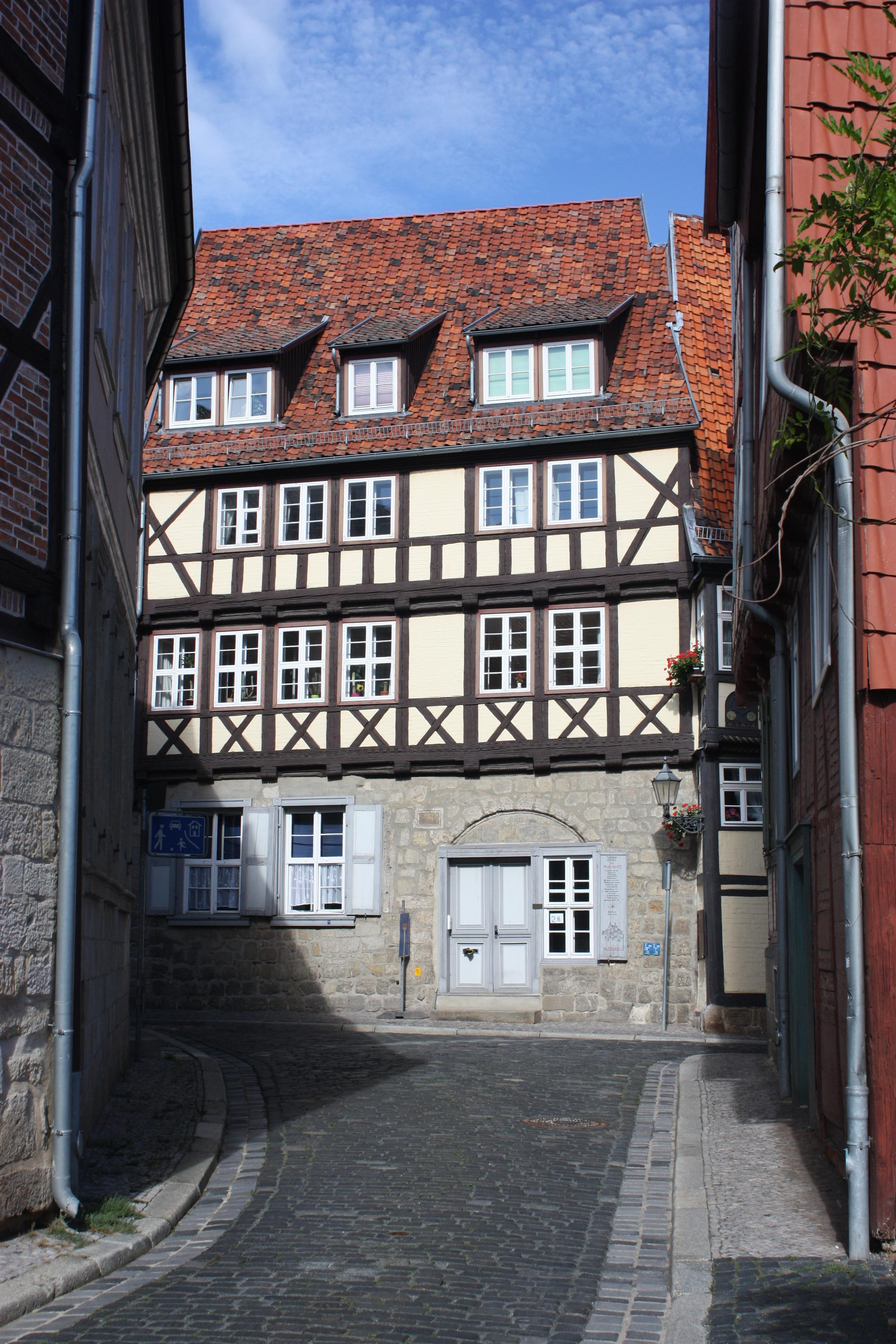 This is a photograph of an architectural monument.It is on the list of cultural monuments of Quedlinburg Quedlinburg Lange Gasse